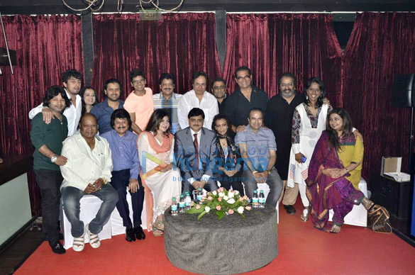 Singers at the formation of Indian Singer's Rights Association (ISRA) for royalties. Kailash Kher, Sonu Nigam, Soumya Rao, Javed Ali, Shaan, Udit Narayan, Manhar Udhas, Kunal Ganjawala, Abhijeet Bhattacharya, Hariharan, Mahalaxmi Iyer, Mohammad Aziz, Pankaj Udhas, Alka Yagnik, Sanjay Tandon, Chitra Singh, Suresh Wadkar, Mitali Singh